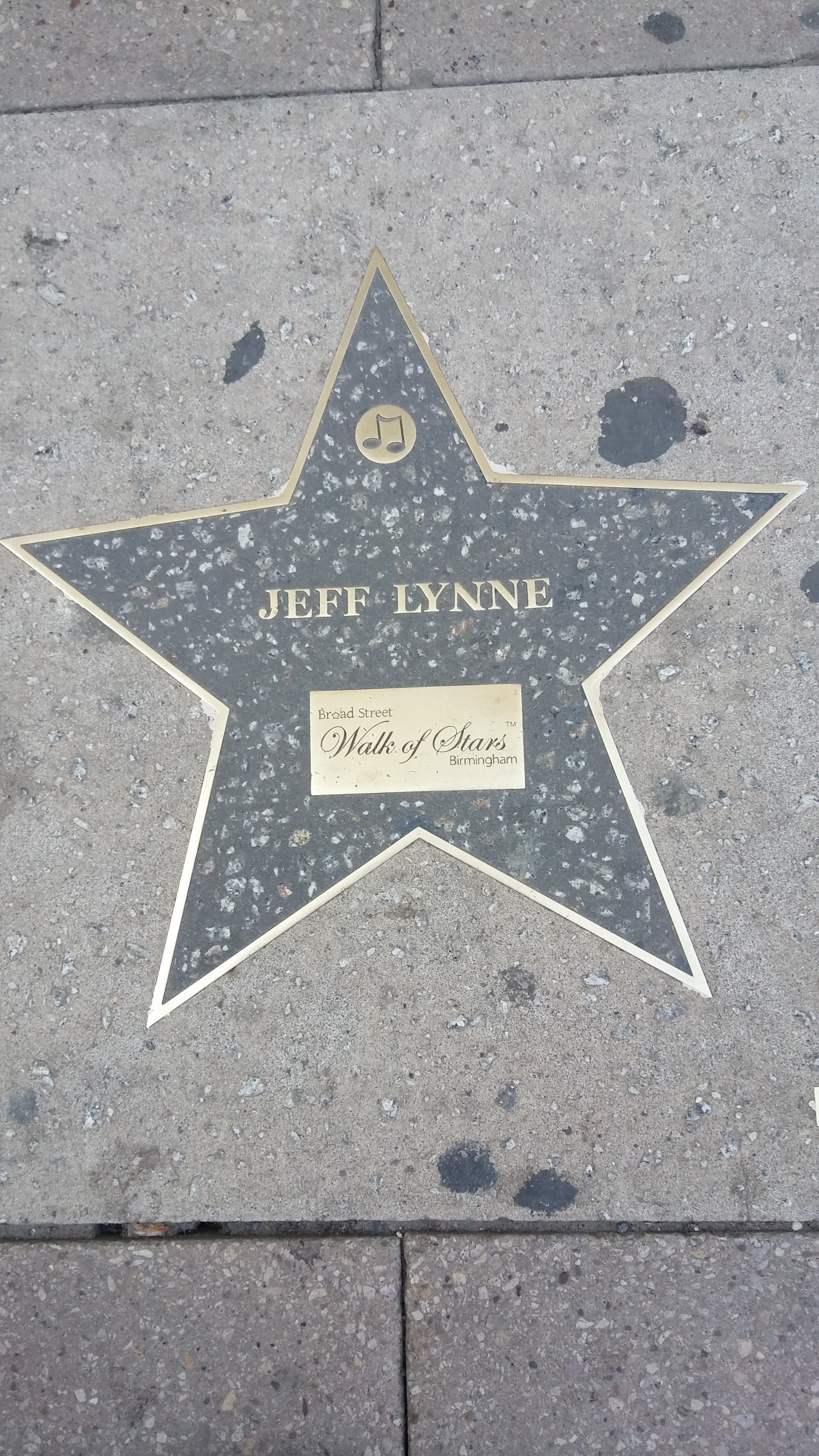 Jeff Lynne star in Walk of Fame Birmingham